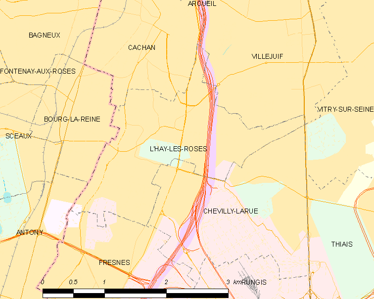 Map of French municipality L'Haÿ-les-Roses